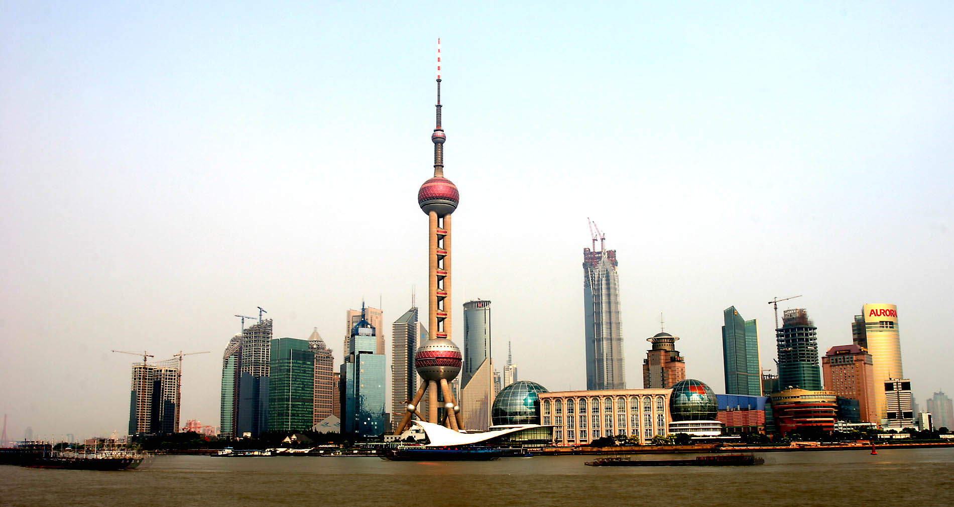 View over Pudong New Area in Shanghai over the Huangpu river. Picture is taken from the Bund. Equipment used: Canon EOS 20D, 17-40 4.0L @ 17 mm. 1/500s F8 ISO 100. HDR technique